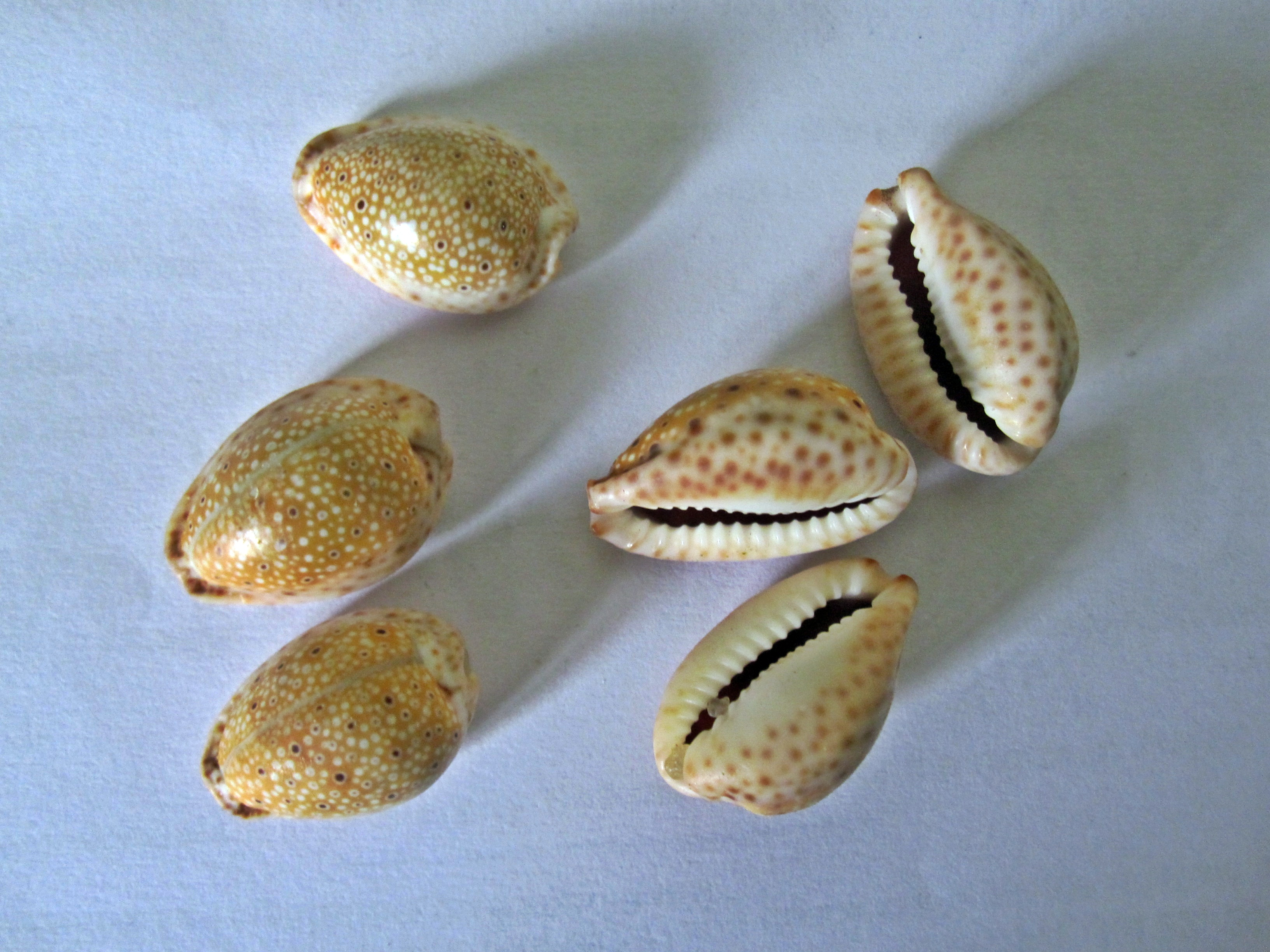 cowry shells used as dice for games of chance in Tamil culture (சோழி/சோவி). This indicates a roll of 3